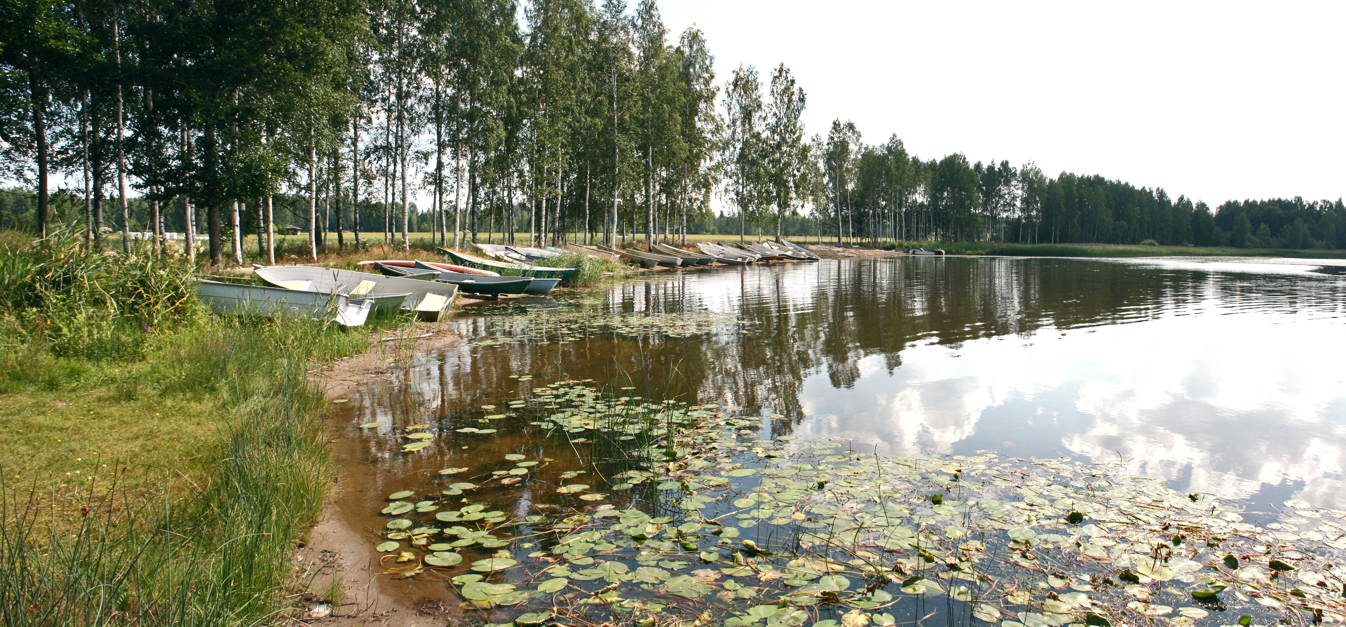 Lake Valkjärvi in Kärkölä, Finland, beach